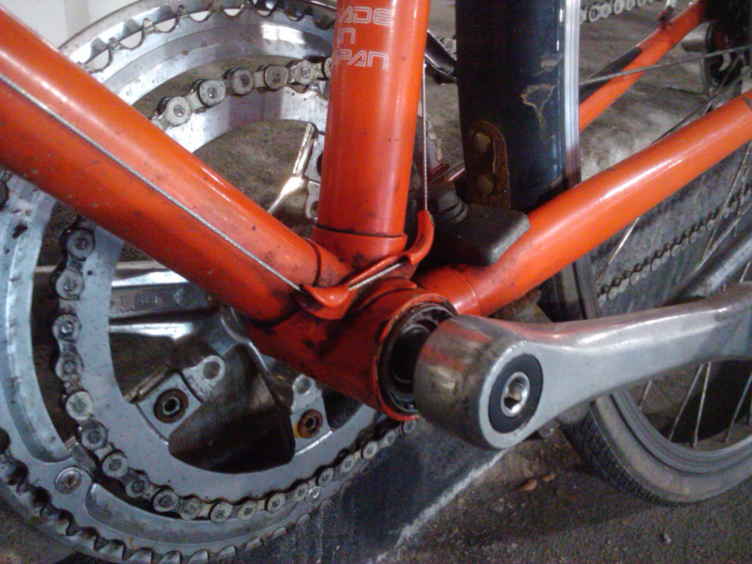 Metal, braze-on cable guide on the top side of a bicycle bottom bracket shell